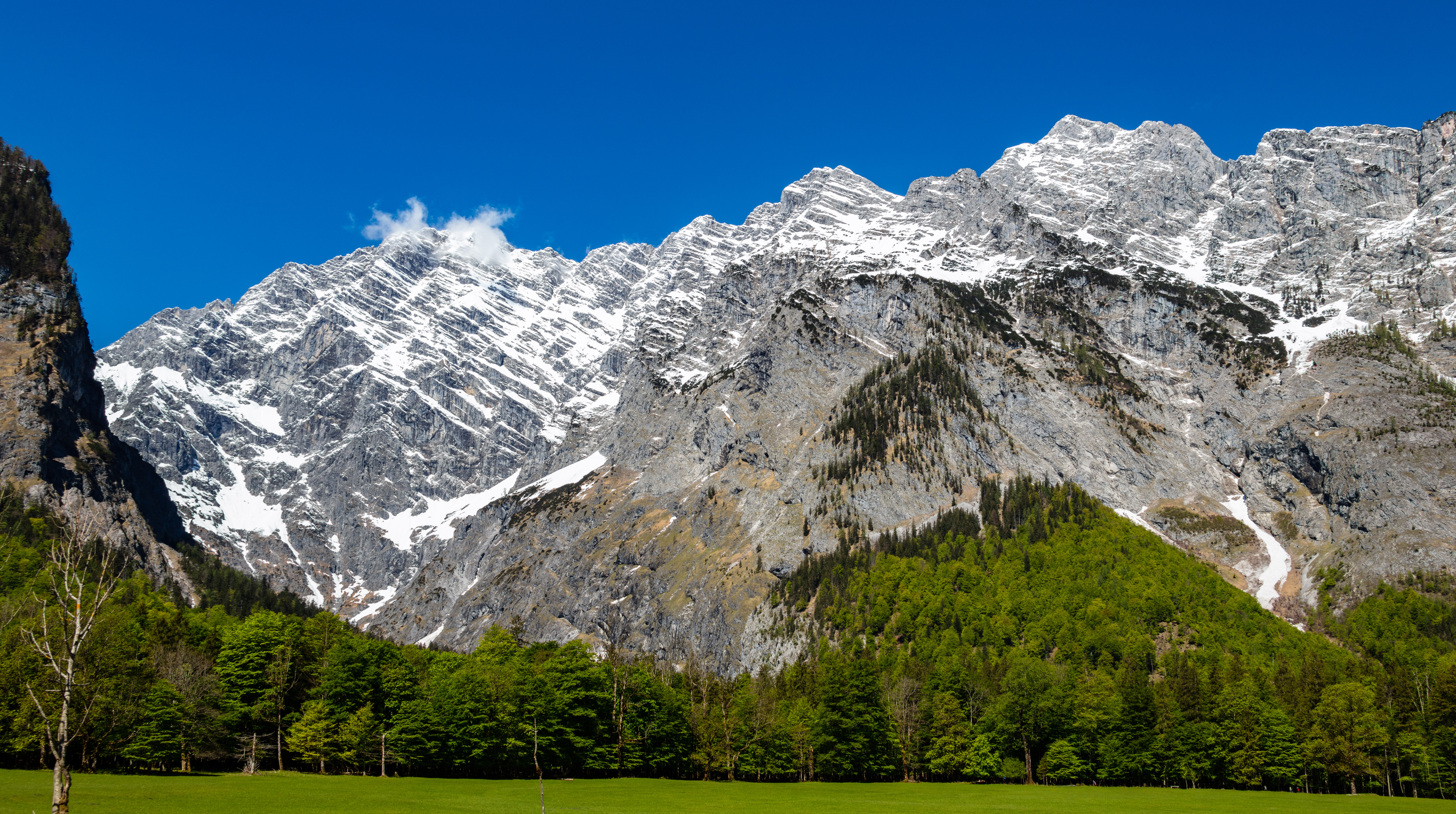 Watzmann, Berchtesgaden Alps, Germany